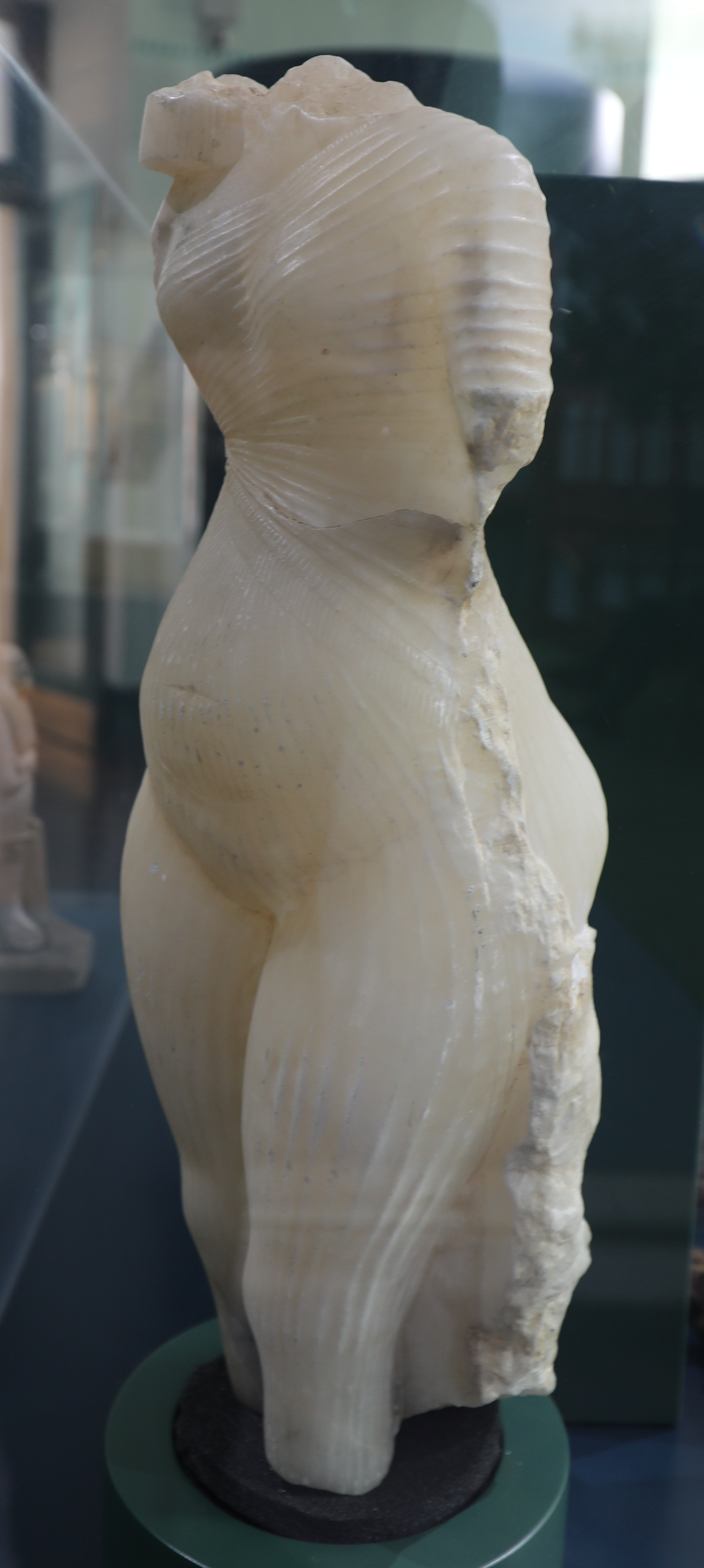 Photo of the Amarna Princess